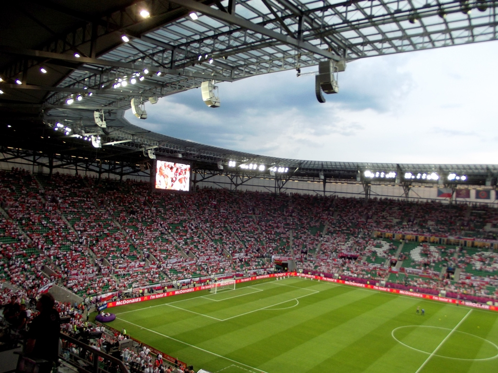 Interior of the Wrocław Municipal Stadium during Czech Republic - Poland, UEFA Euro 2012.